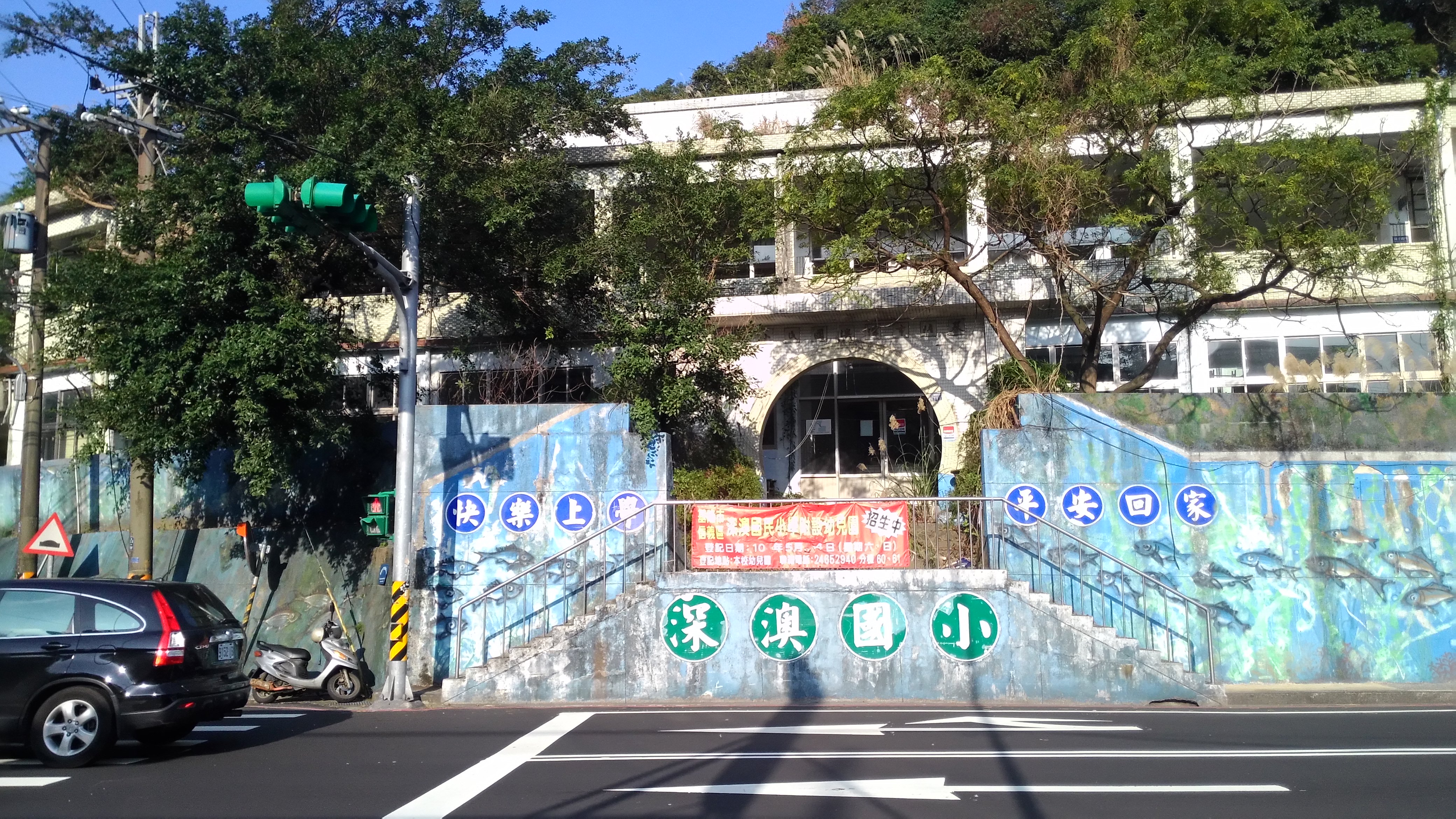 Shen-Ao Elementary School, Sin-Yi District, Keelung City, Taiwan (old campus)